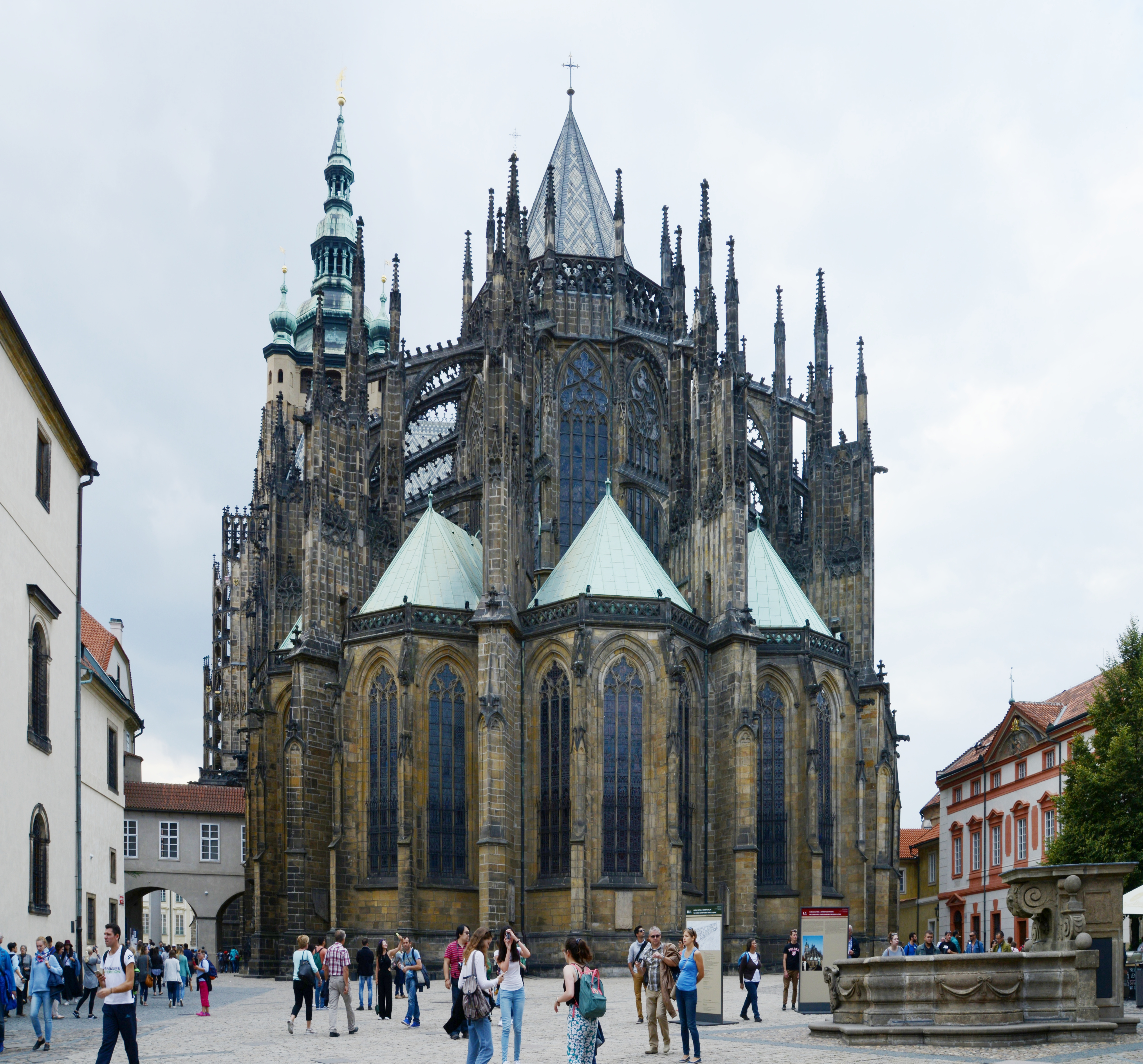 Eastern façade of St. Vitus Cathedral, Prague